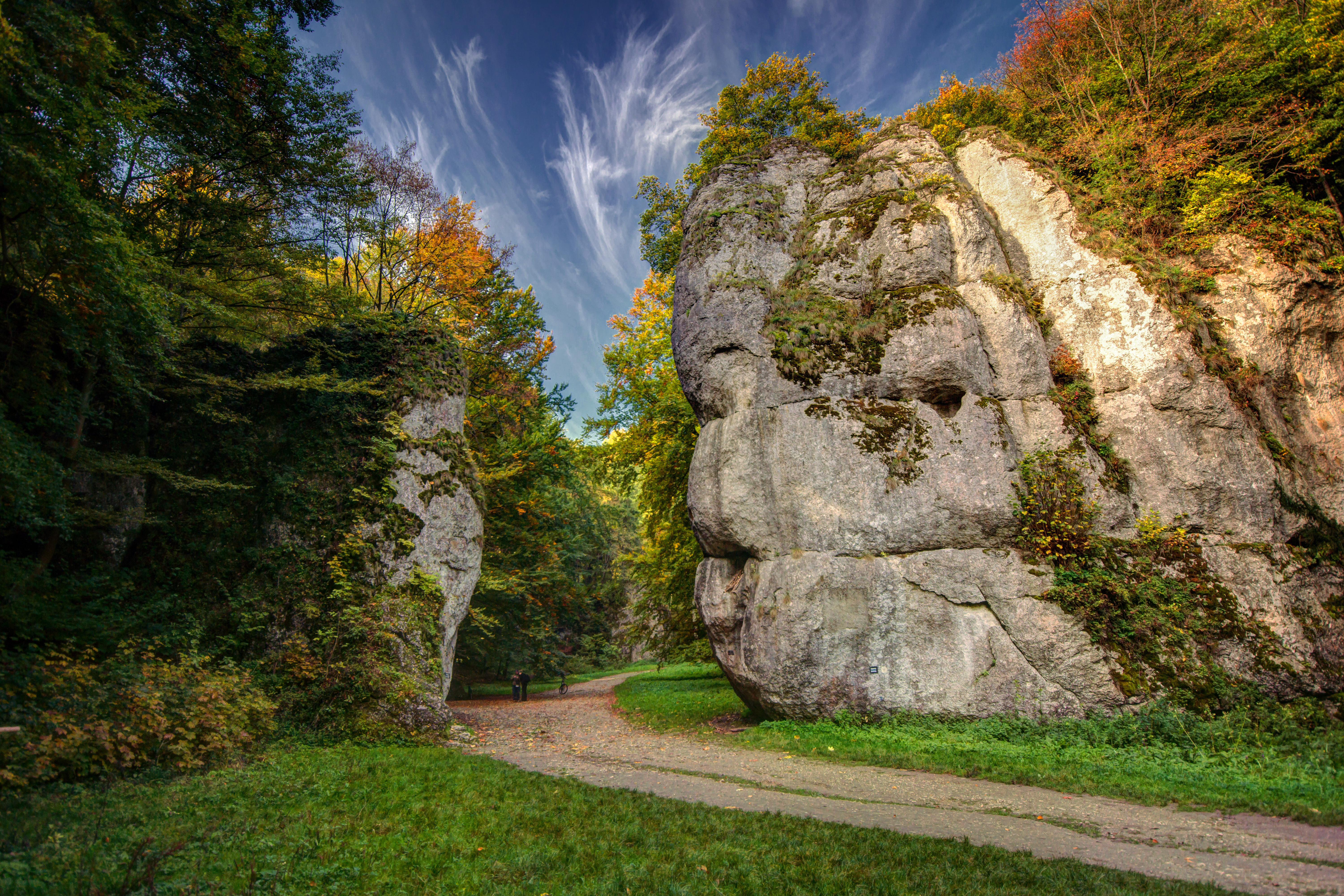 Brama Krakowska (Kraków Gate) in Prądnik River Valley. This is a photography of Natura 2000 protected area with ID PLH120004